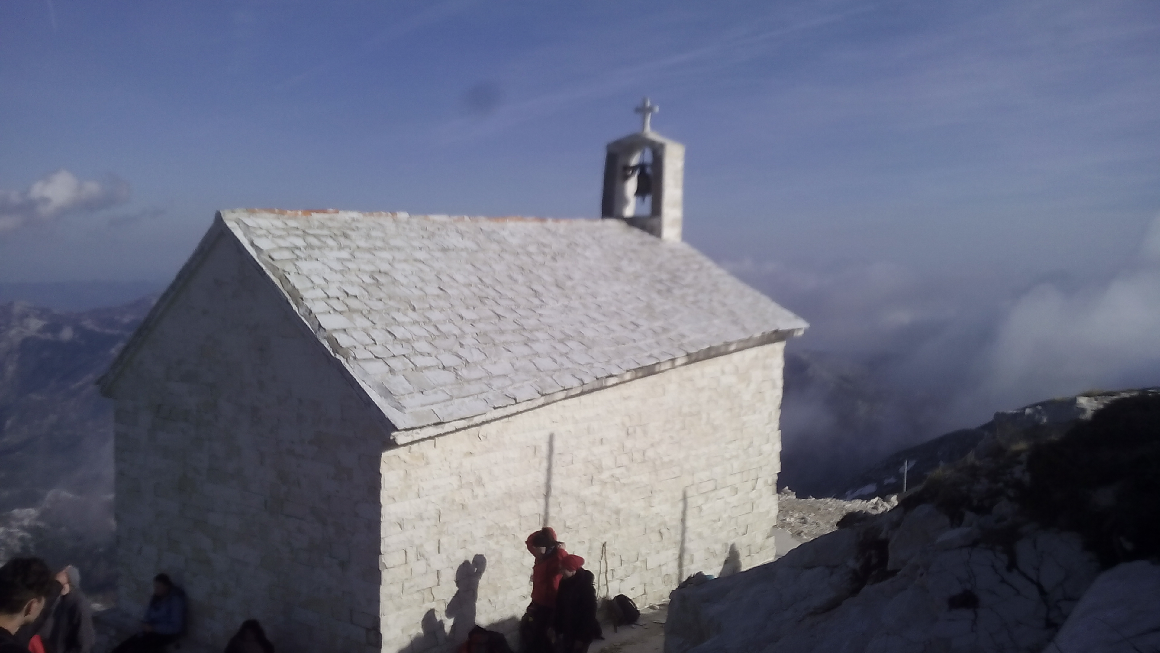 Chapel on Biokovo